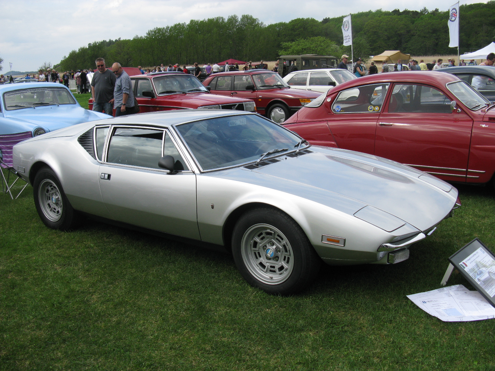 1973 De Tomaso Pantera, chassis number THPNNG06184. Brought to Sweden in 1990, from the US judging by the side marker lights.